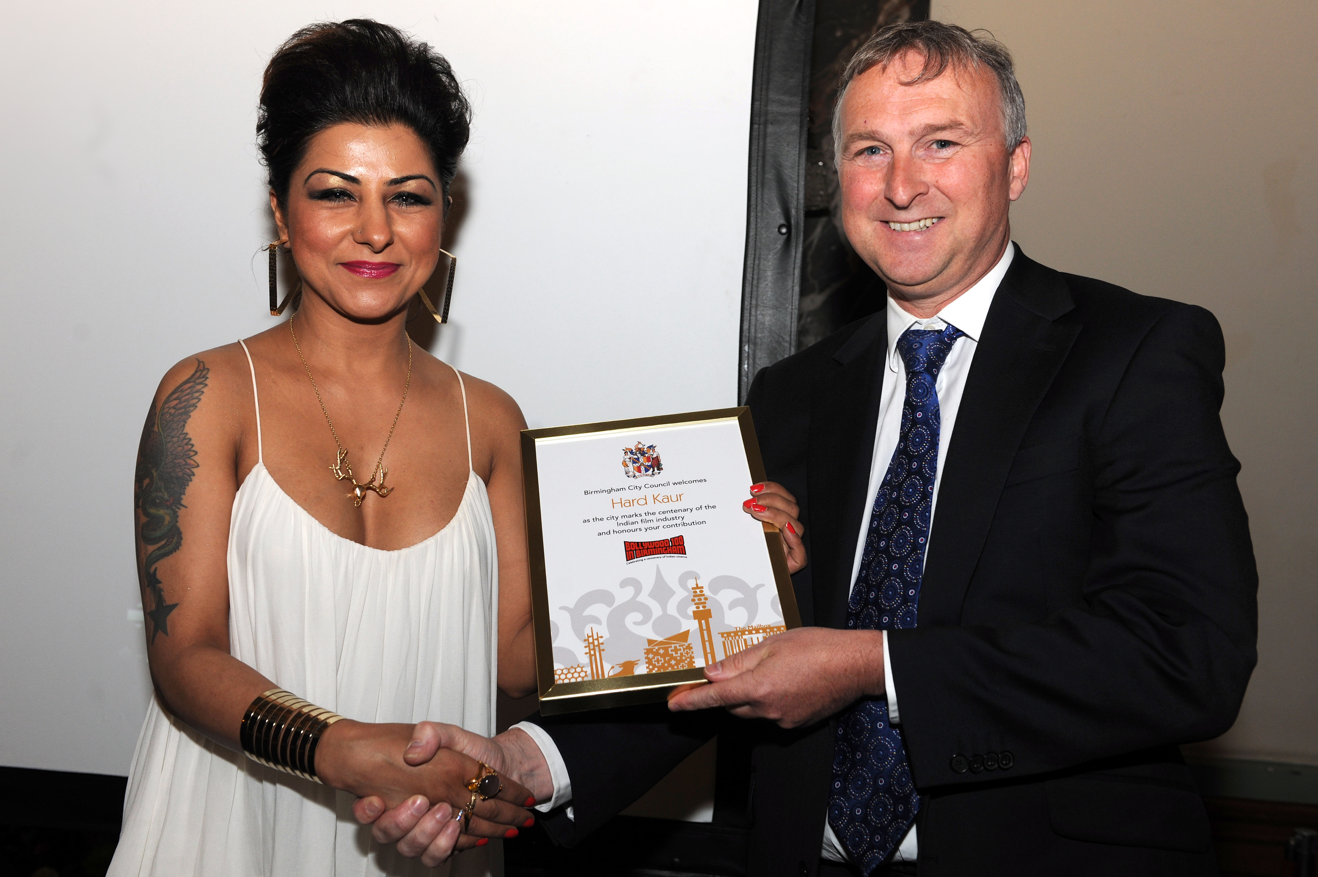 Hard Kaur and Birmingham City Councillor Ian Ward.